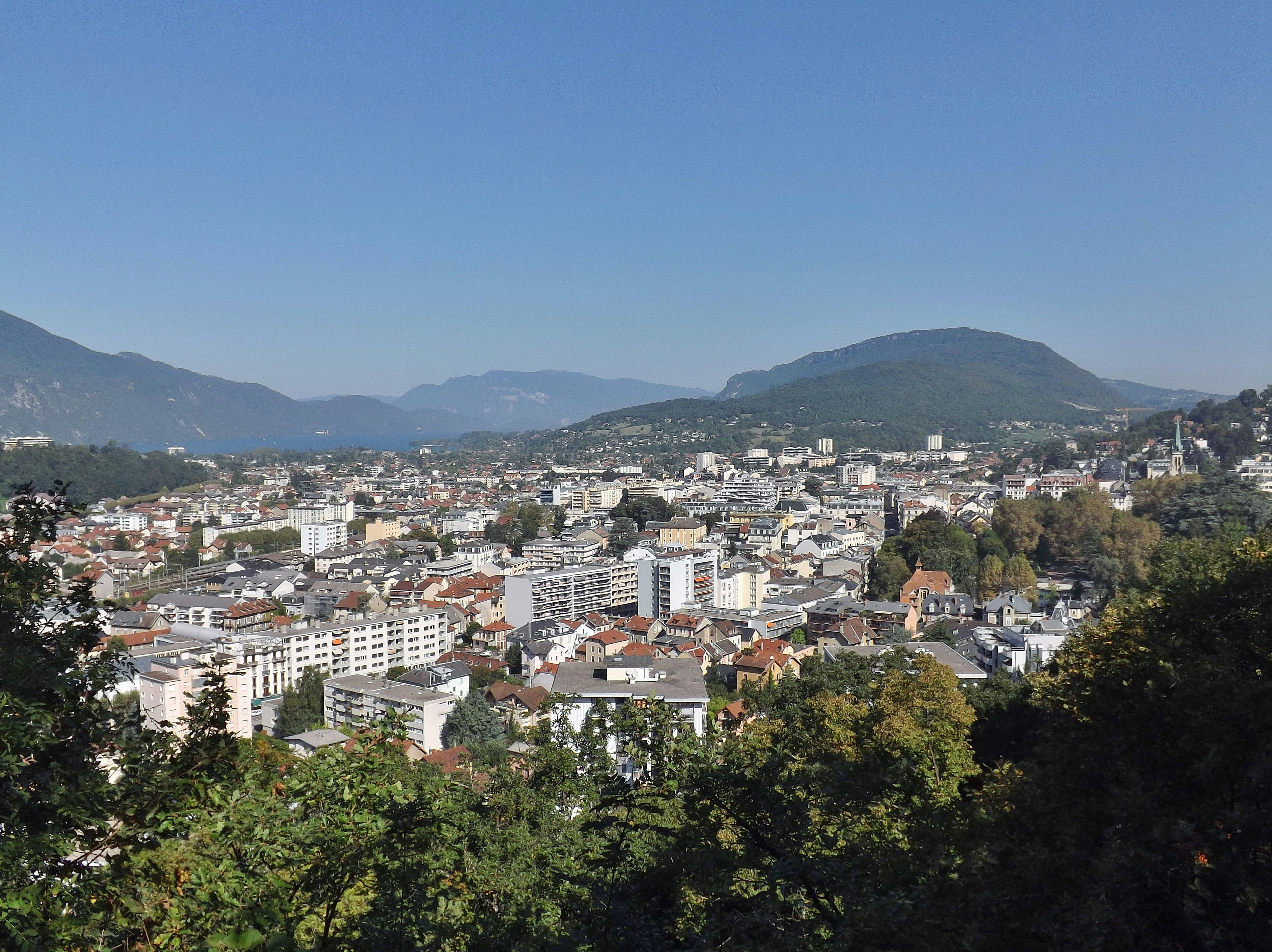 Panoramic sight of the French city of Aix-les-Bains in Savoie.